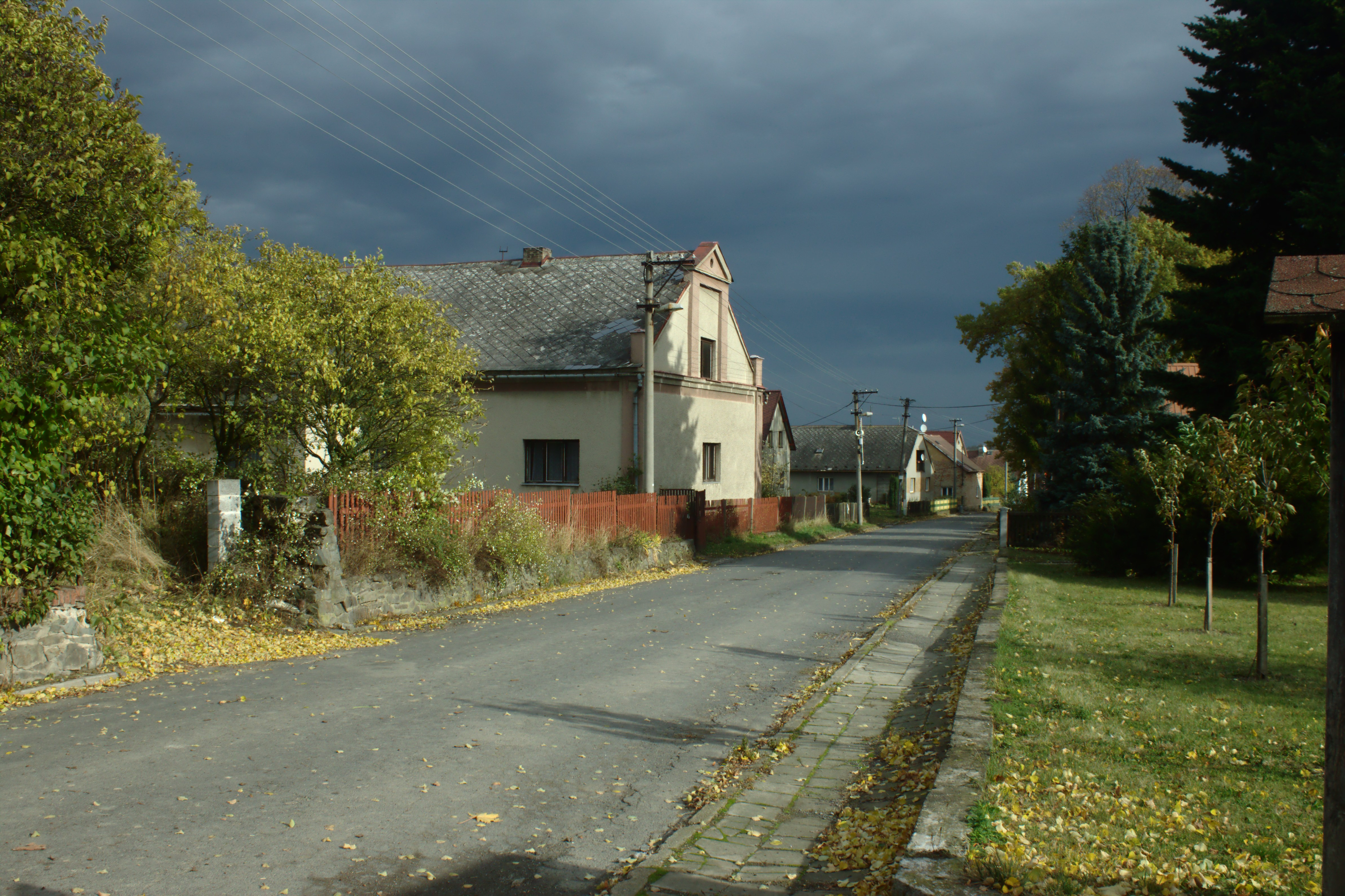 A road in Dubnice, heading from the local church to Býkov-Láryšov, Moravian-Silesian Region, CZ